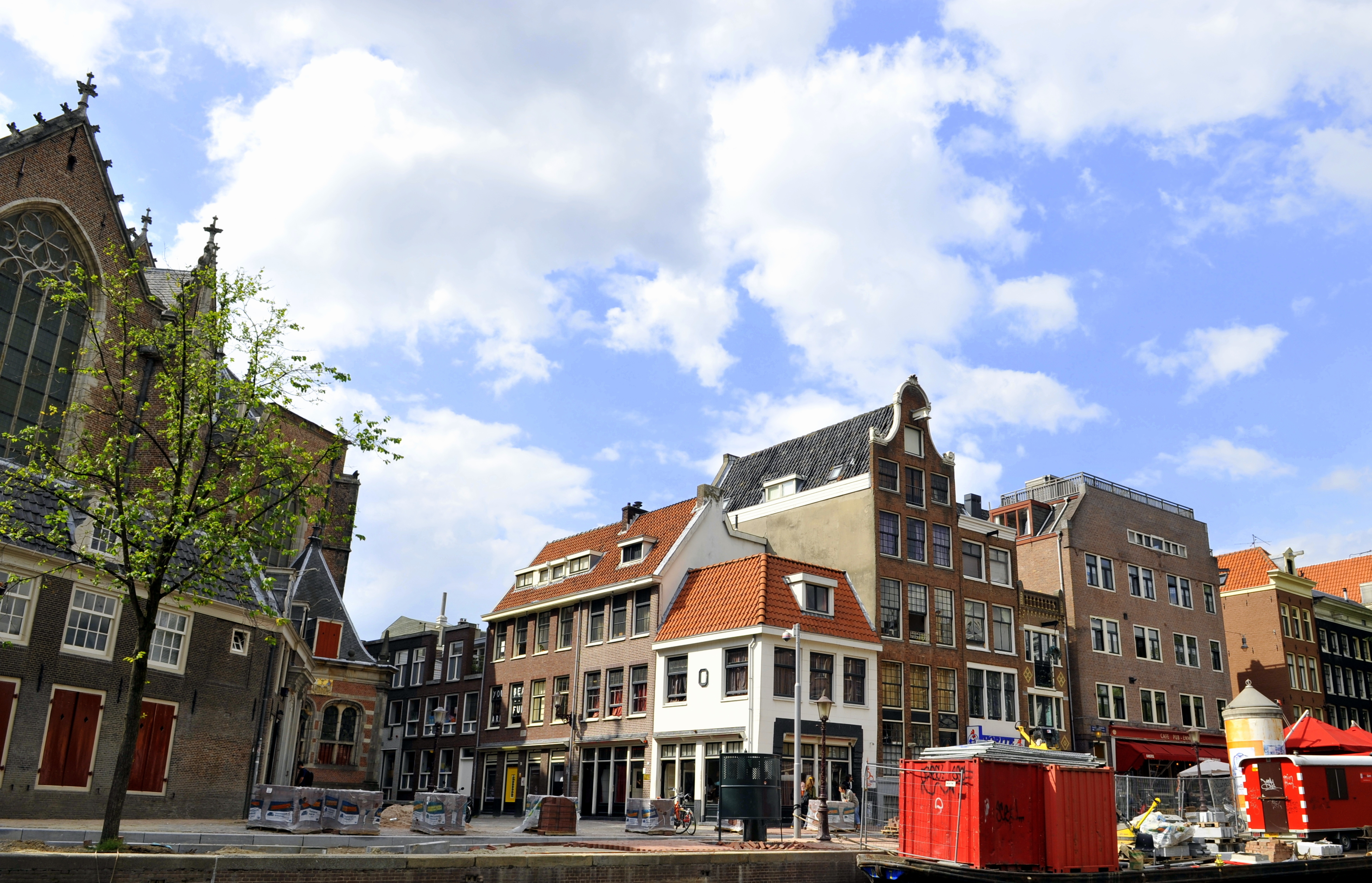 A regular friday in the redlight district